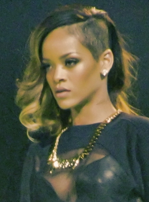 Rihanna performing Diamonds World Tour at the Air Canada Centre, 19 March 2013.